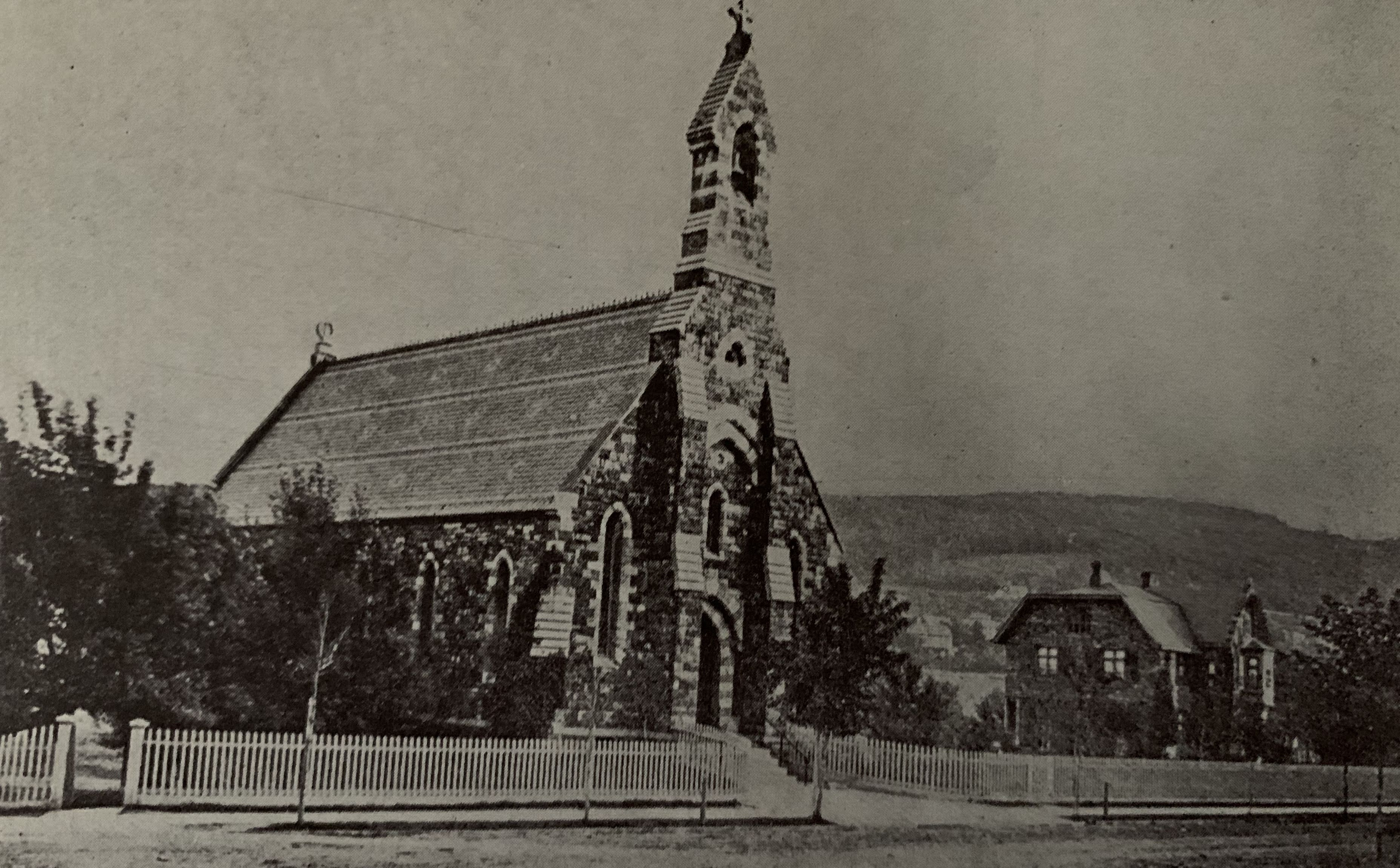 Photograph of The (Episcopal) Church of the Nativity showing the original west-east placement and original bell gable, designed by E. T. Potter. At the corner of 3rd and Wyandotte Streets, South Bethlehem, c. 1866